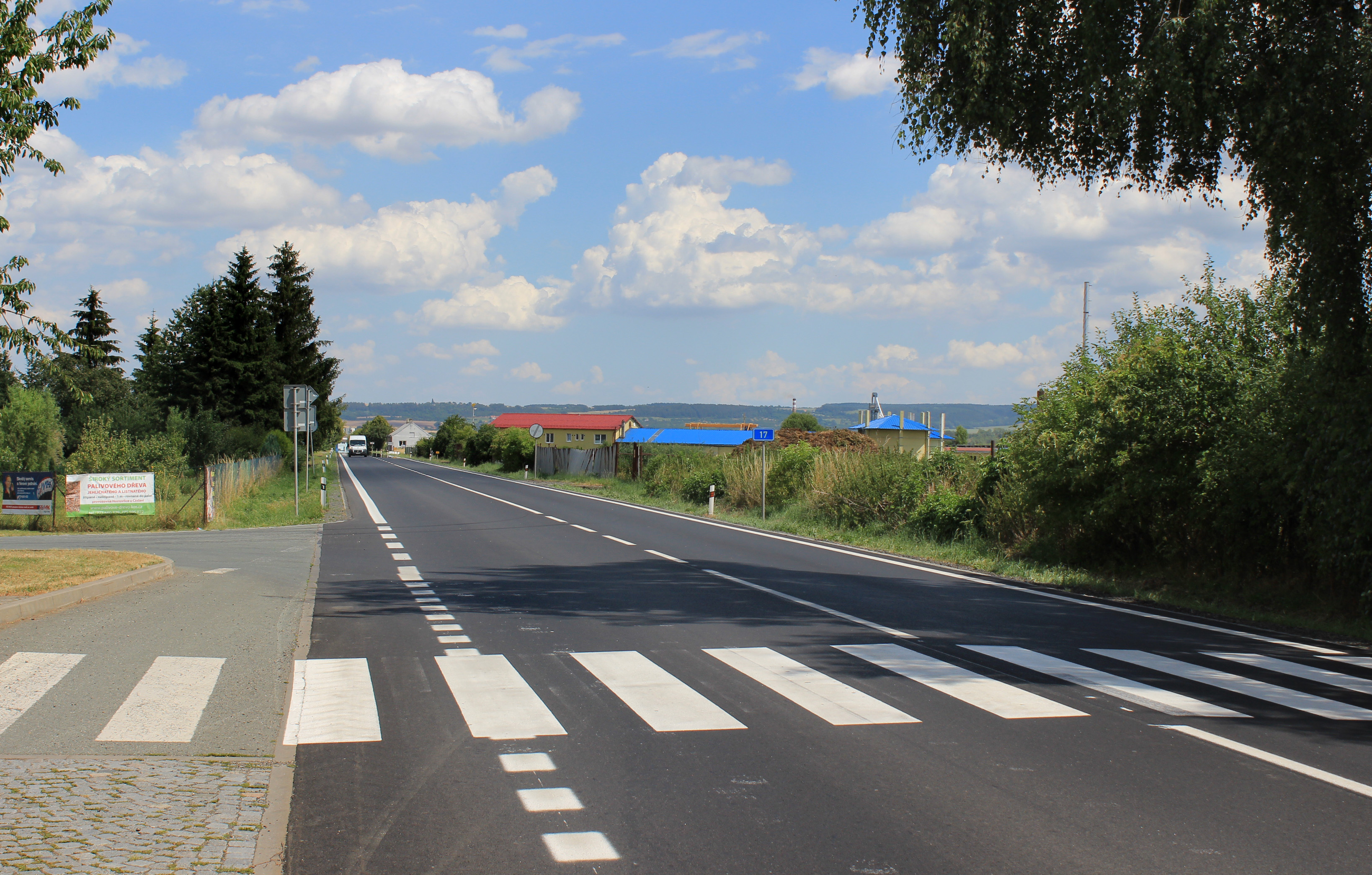 Road No 17 in Horní Bučice, part of Vrdy, Czech Republic.